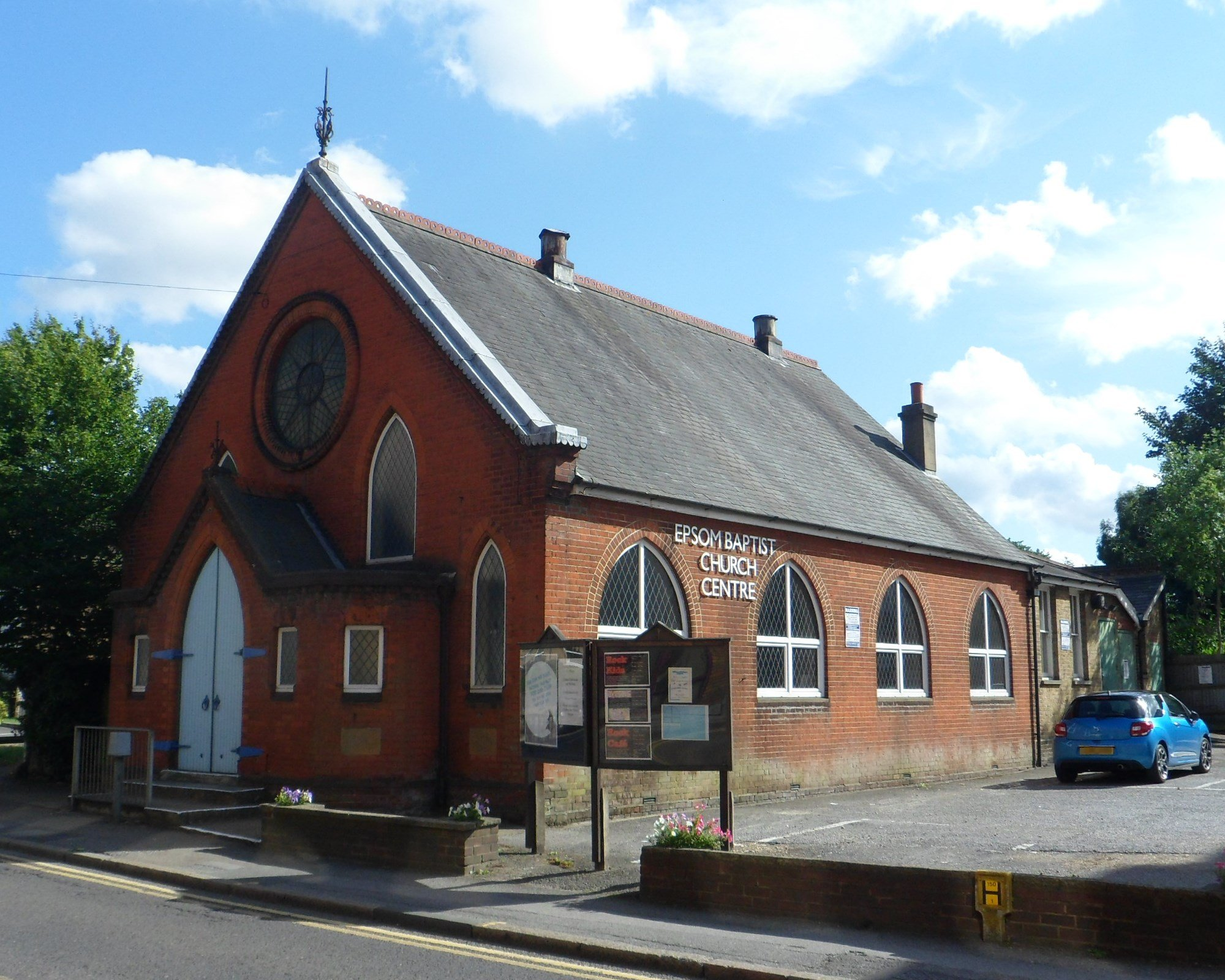 Epsom Baptist Church, Church Road, Epsom, Epsom and Ewell Borough, Surrey, England.